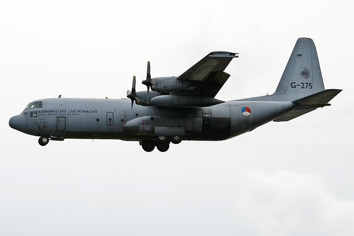 Royal Netherlands Air Force, G-275, Lockheed C130H Hercules